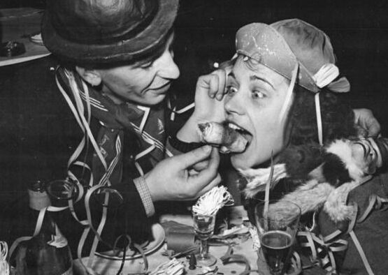 Factual corrections and alternative descriptions are encouraged separately from the original description. Additionally errors can be reported at this page to inform the Bundesarchiv. Original historic description: Neujahrsfest Illus Quaschinsky 28.12.50 Silvester 1950.